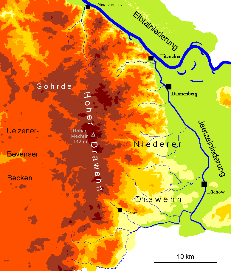 Map of the hilly region "Drawehn" between Hamburg and Berlin (North German Lowland). Map has a German inscription.